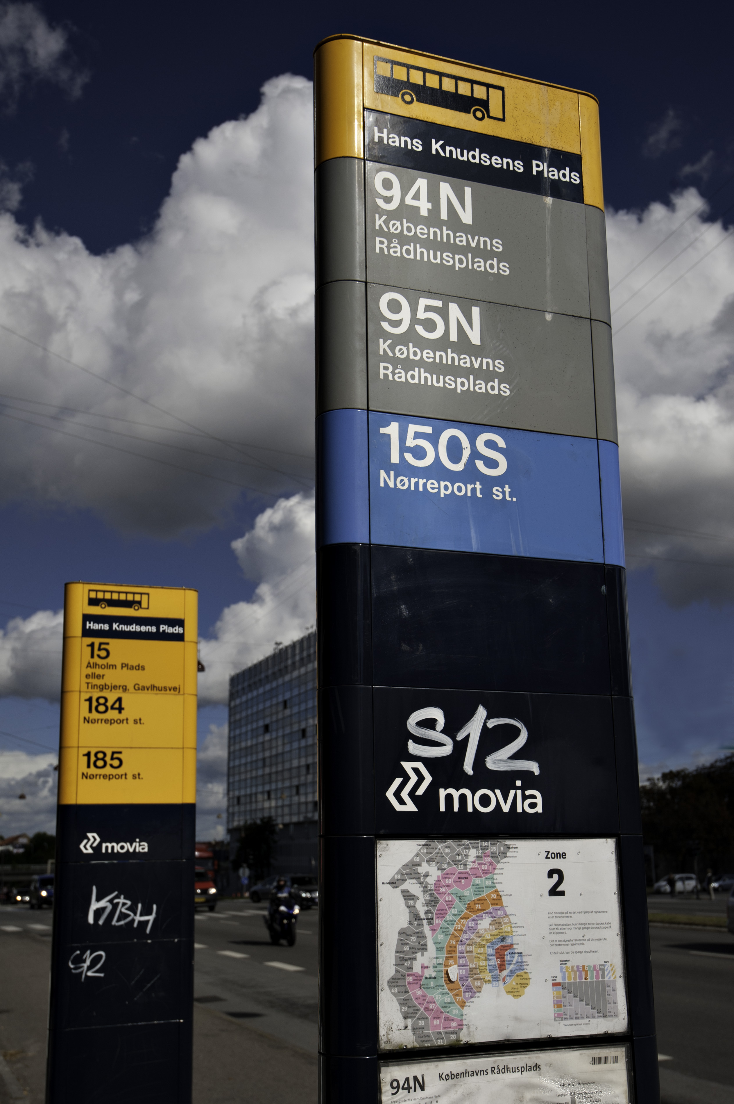 Bus sign in Copenhagen, named Hans Knudsens Plads after the nearby square Hans Knudsens Plads (Plads being Danish for Square).